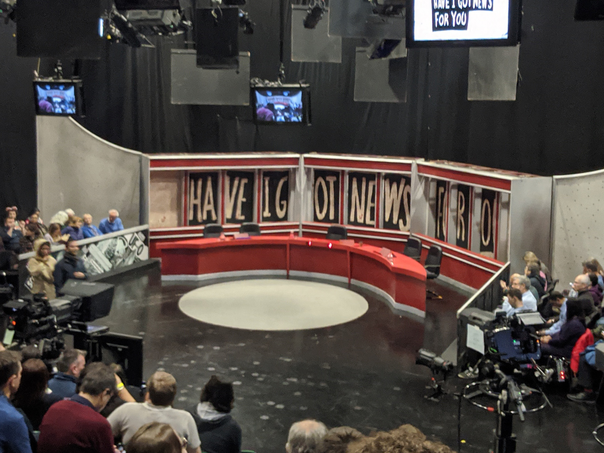 The studio of the BBC/Hat Trick show "Have I Got News For You" in Borehamwood, England.